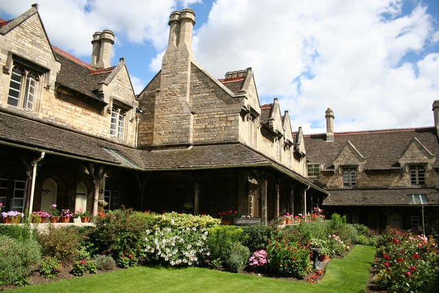 Browne's Hospital Almshouses Almshouses for the residents of Browne's Hospital, by James Fowler in 1869